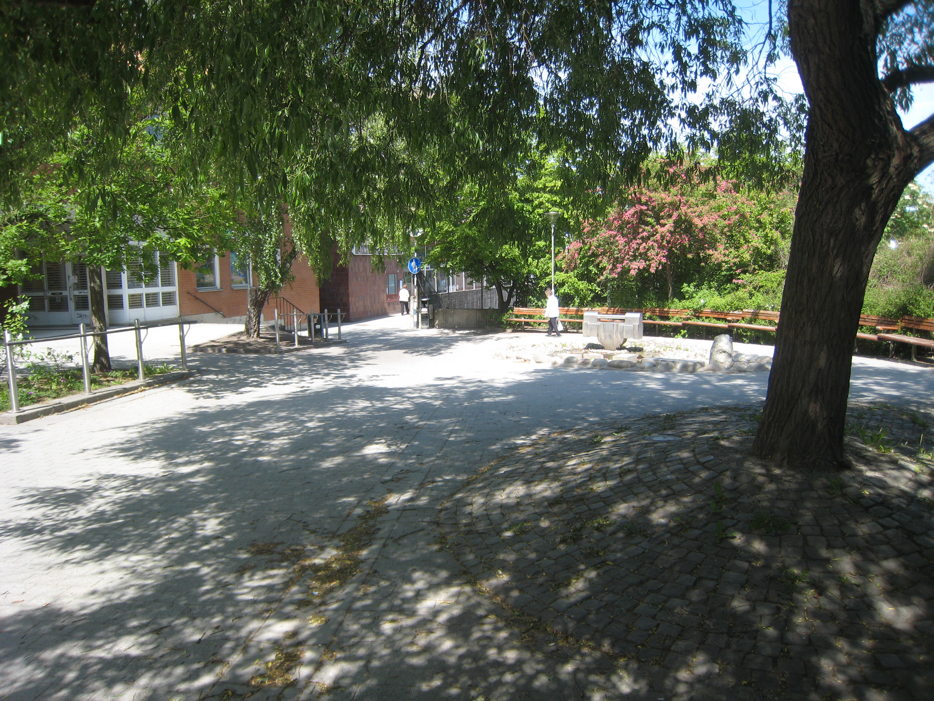 Axelbergs torg